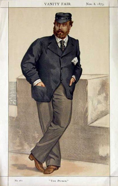 Caricature of Edward, Prince of Wales.